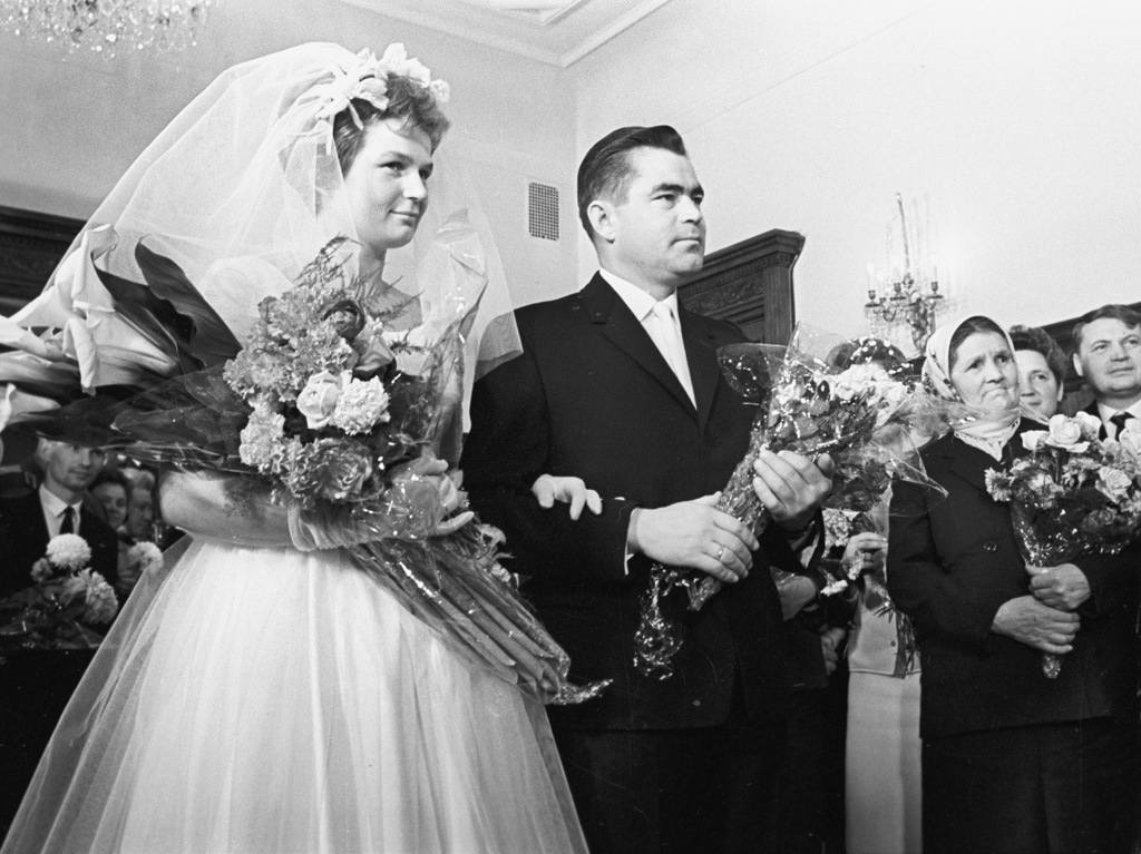 “Valentina Tereshkova and Andrian Nikolaev”. Solemn wedding ceremony of pilot-cosmonauts Valentina Tereshkova and Andrian Nikolaev.